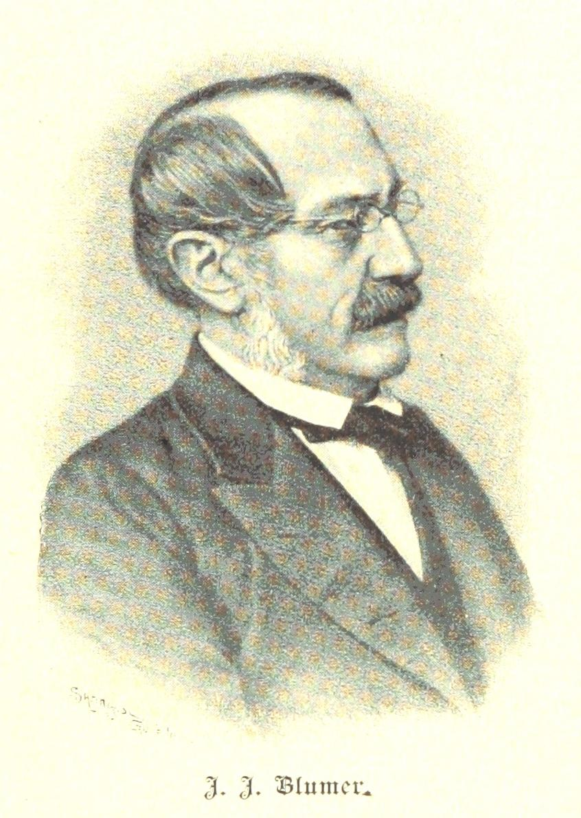 Johann Jakob Blumer Image taken from: Title: "Die Schweiz im neunzehnten Jahrhundert. Herausgegeben von schweizerischen Schriftstellern unter Leitung von P. Seippel" Author: SEIPPEL, Paul. Shelfmark: "British Library HMNTS 9305.h.2." Volume: 02 Page: 295 Place of Publishing: Lausanne Date of Publishing: 1899 Issuance: monographic Identifier: 003330970 Explore: Find this item in the British Library catalogue, 'Explore'. Download the PDF for this book (volume: 02) Image found on book scan 295 (NB not necessarily a page number) Download the OCR-derived text for this volume: (plain text) or (json) Click here to see all the illustrations in this book and click here to browse other illustrations published in books in the same year.